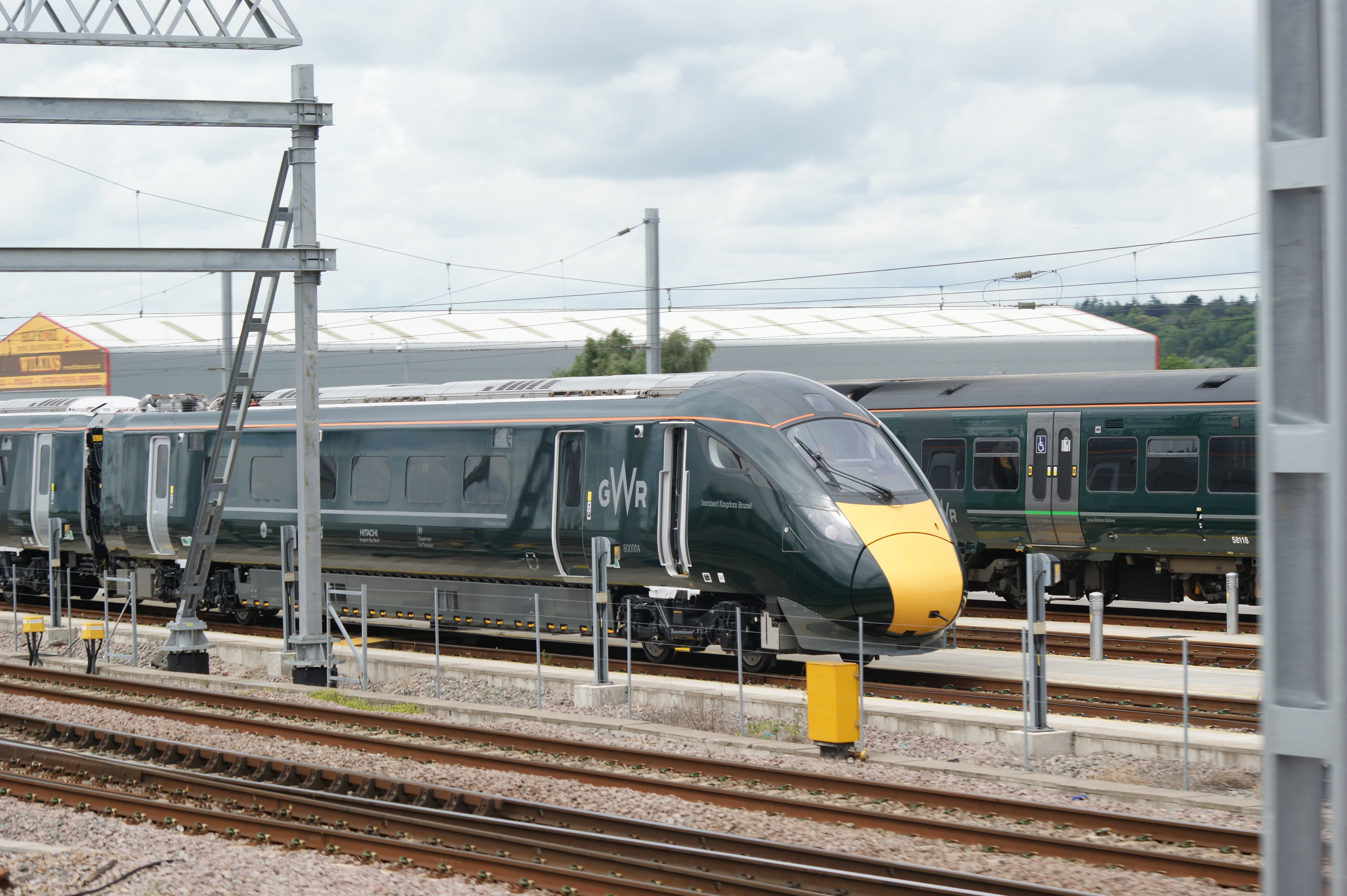 800004 'Isambard Kingdom Brunel/Sir Daniel Gooch' in Reading Depot on 30th June 2016